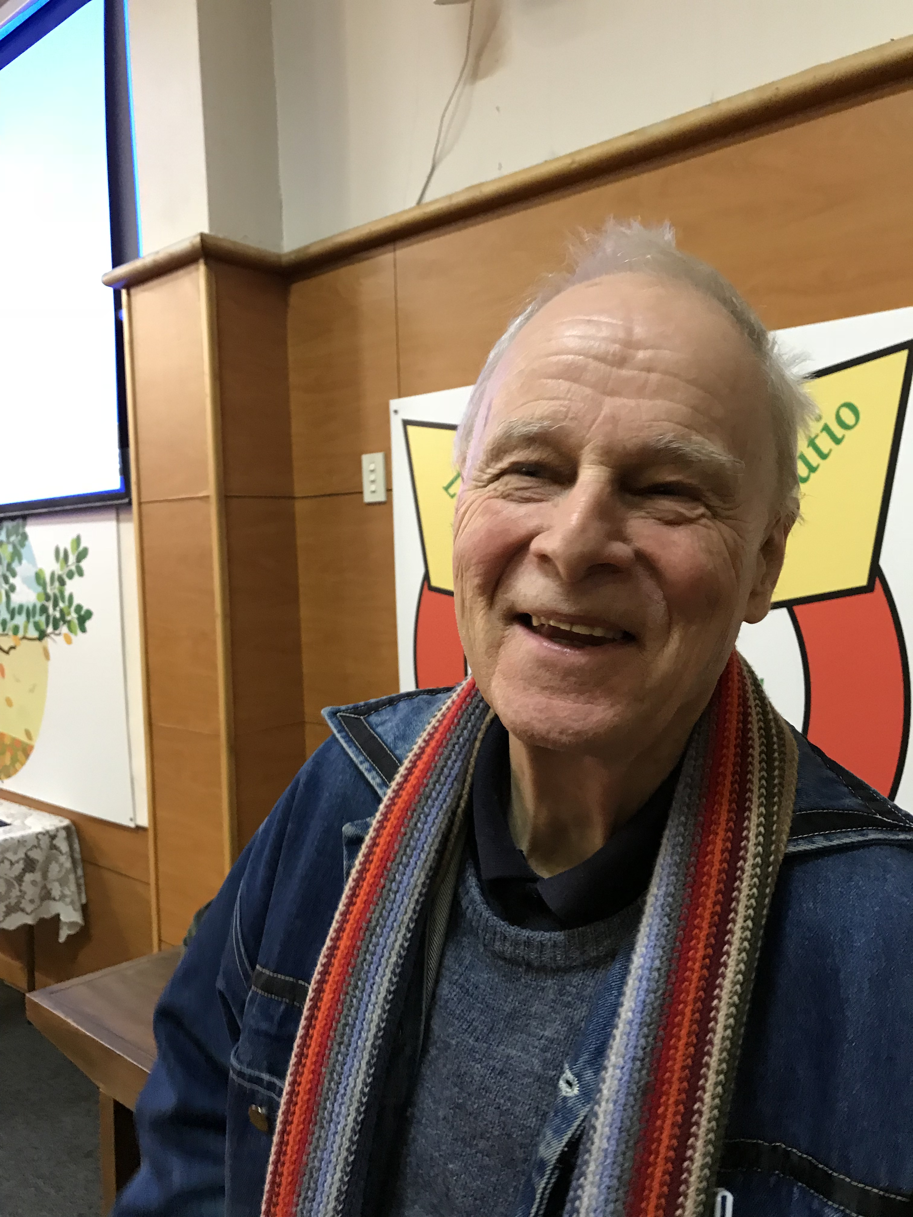 Philip Trusttum in August 2018.